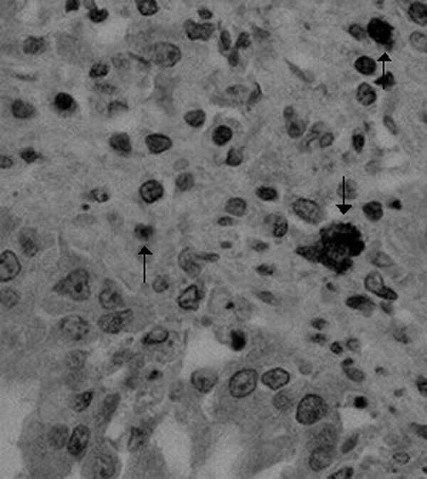 Immunohistochemical detection of canine coronavirus antigen (arrows) in canine lung tissue by a specific monoclonal antibody (magnification ×400). Source:Buonavoglia C, Decaro N, Martella V, Elia G, Campolo M, Desario C, Castagnaro M, Tempesta M. "Canine Coronavirus Highly Pathogenic for Dogs". Emerg Infect Dis [serial on the Internet]. 2006 March [cited 2007 Jan 30]. Available from Public Domain rationale